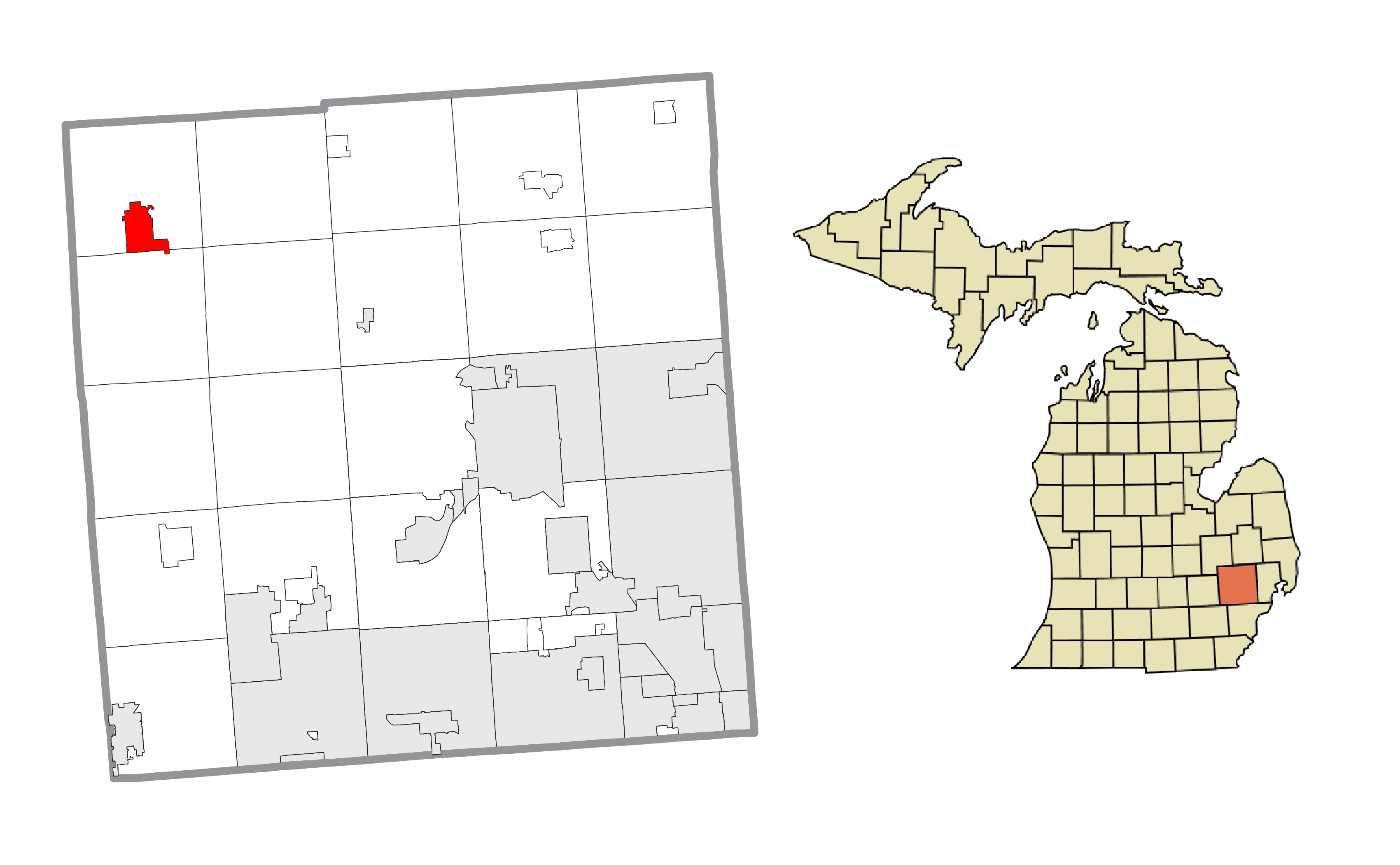 Holly, MI